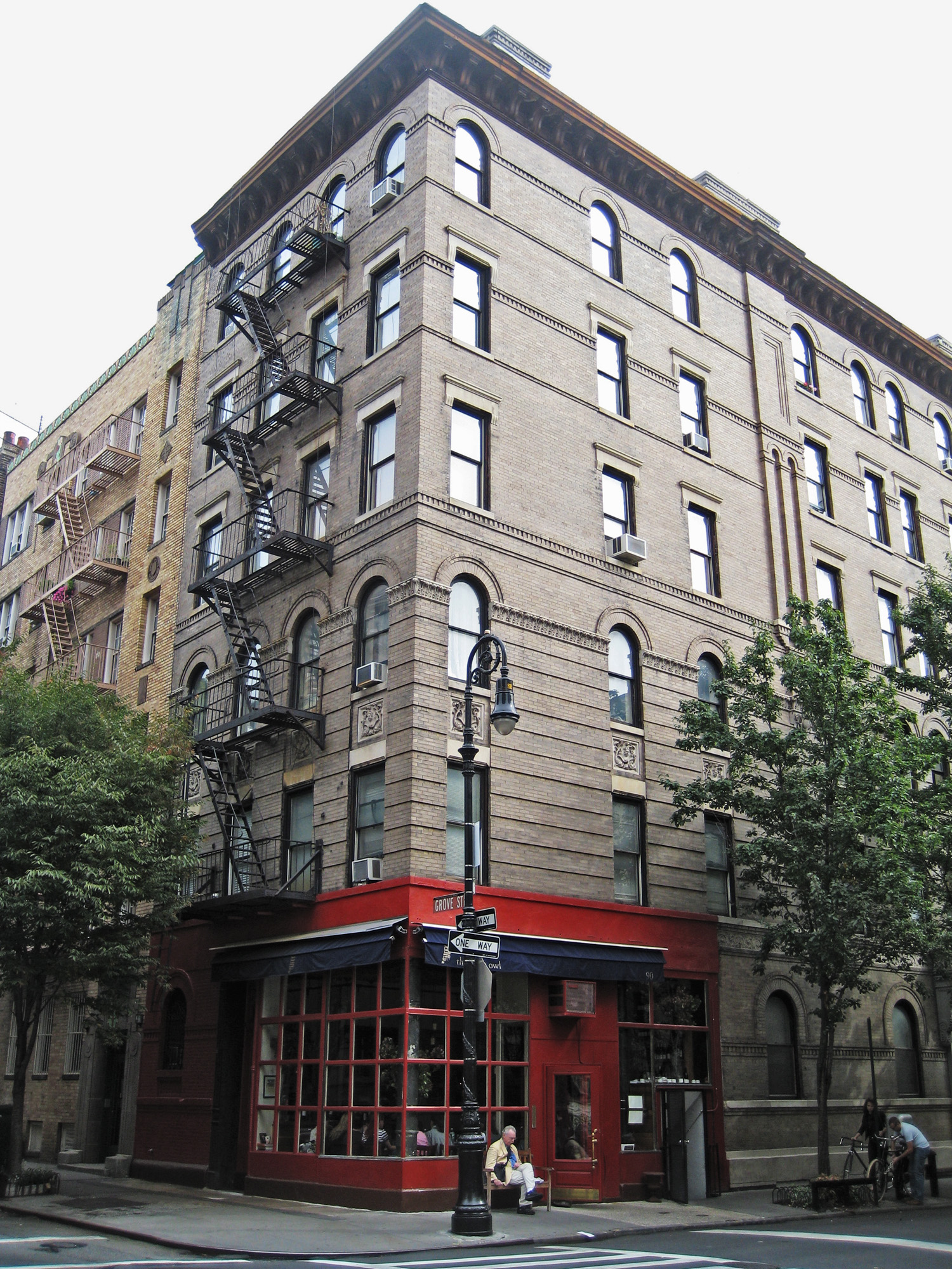 The house from "Friends", 90 Bedford Street, New York, 10014.